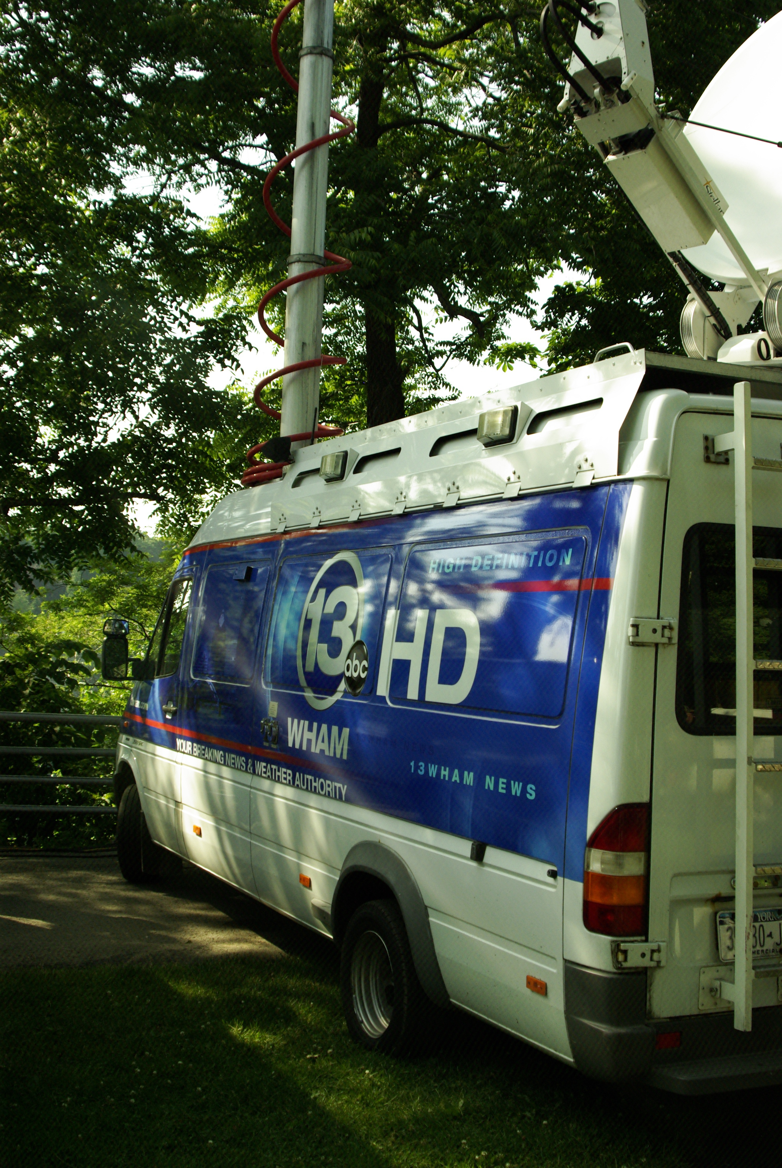 A WHAM news vehicle.